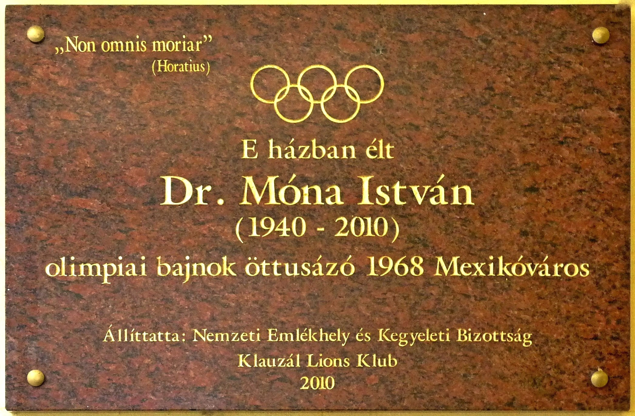 Commemorative plaque to Mr. István Móna (1940–2010), Hungarian modern pentathlete and Olympic champion, affixed to his former home September 17, 2010. (Budapest, District XIII, Pannónia Street Nr 13).